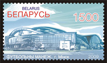 Stamp of Belarus